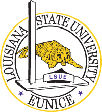 Official Seal of Louisiana State University Eunice